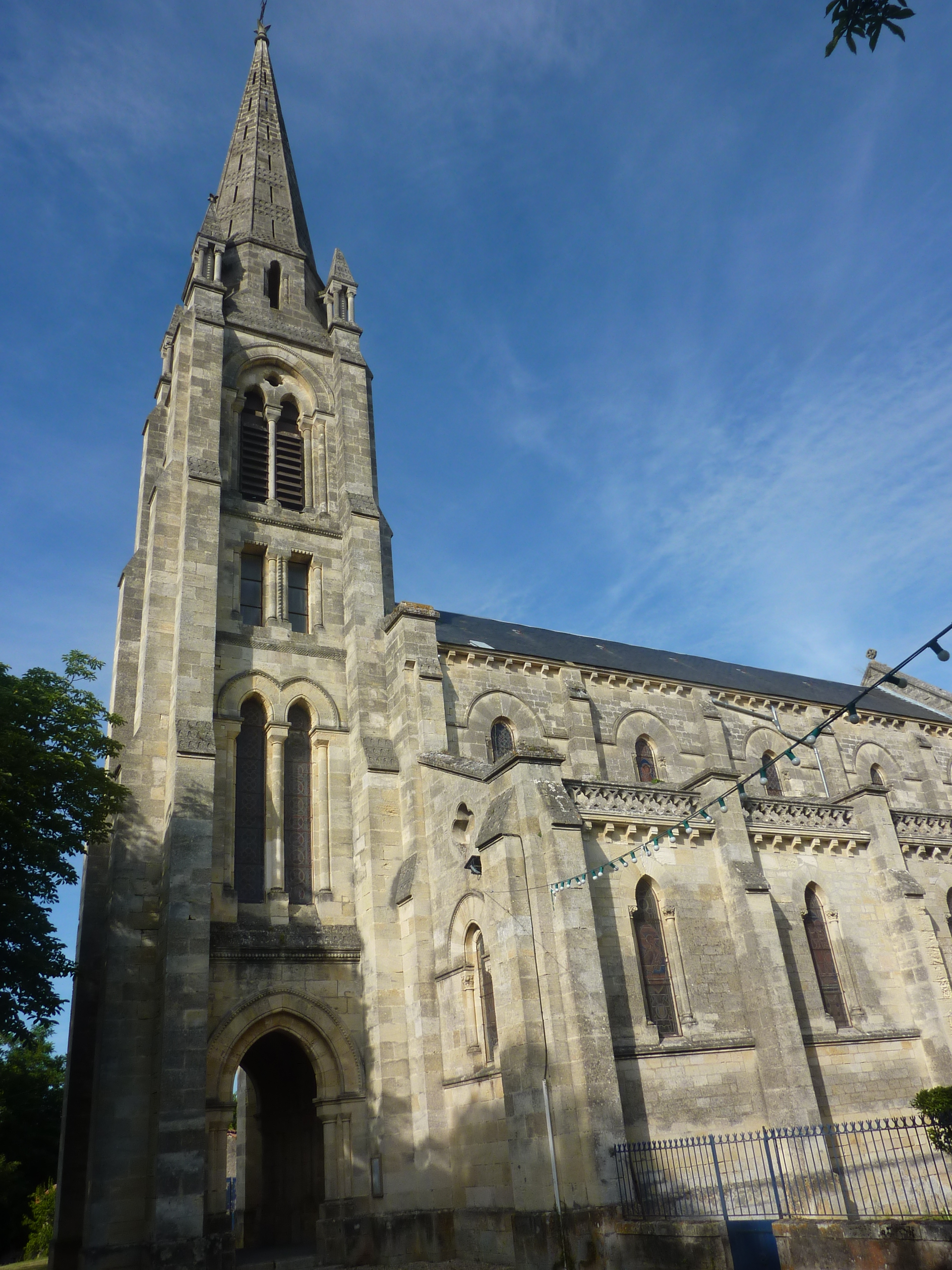 Church of Saint-Yzans-de-Médoc, Gironde, France